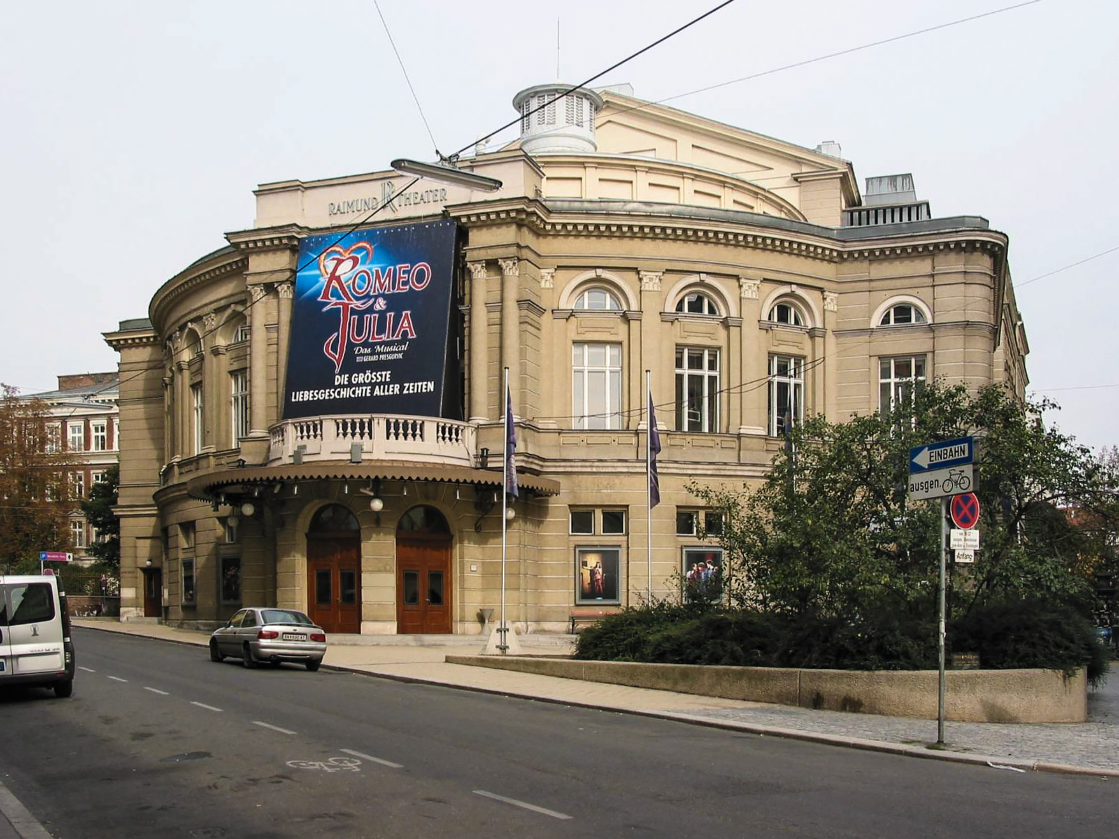 Raimundtheater, Vienna, 2005-10-15 selfmade photo